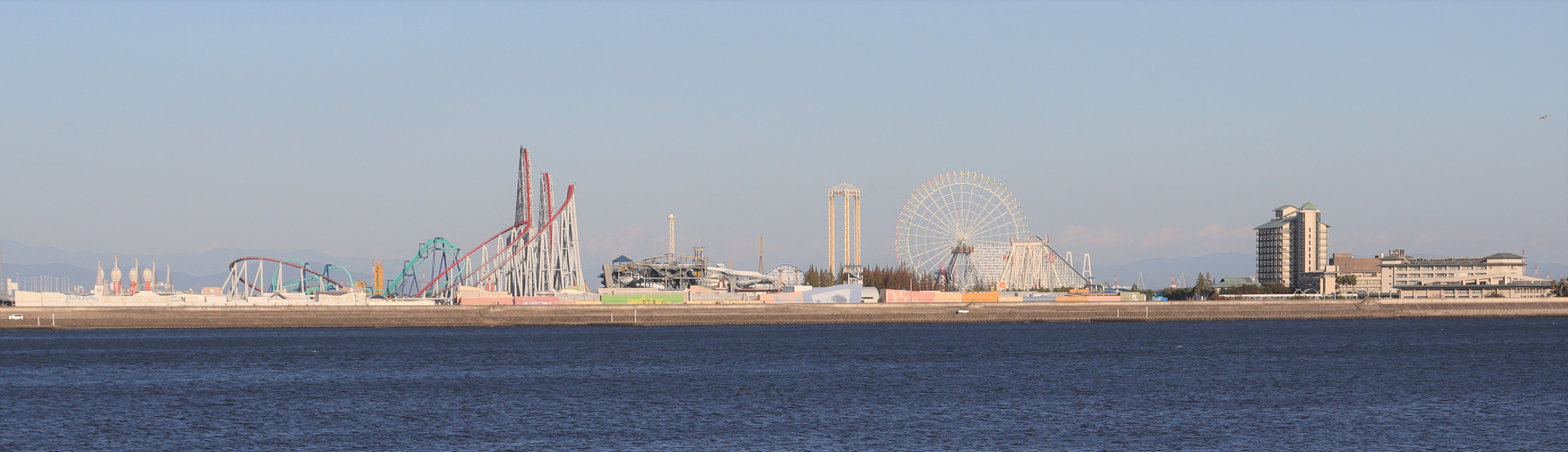 Nagashima Spa Land seen from the Ibi river in Kuwana, Mie Prefecture, Japan